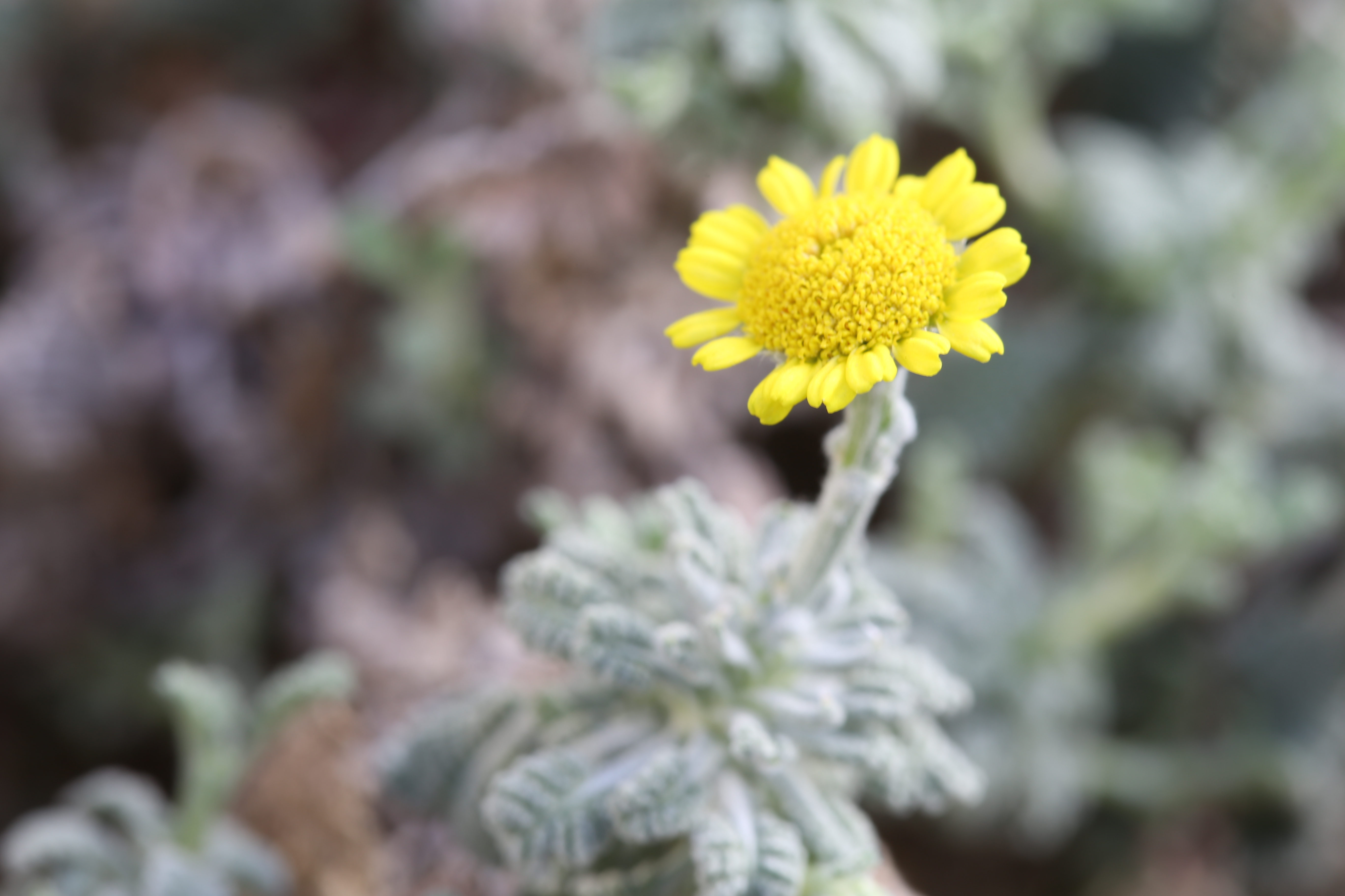 Tanacetum densum ssp. siasicum at Gothenburg Botanical Garden 2015. Plant id: 2007-454 s W -- Pavelka